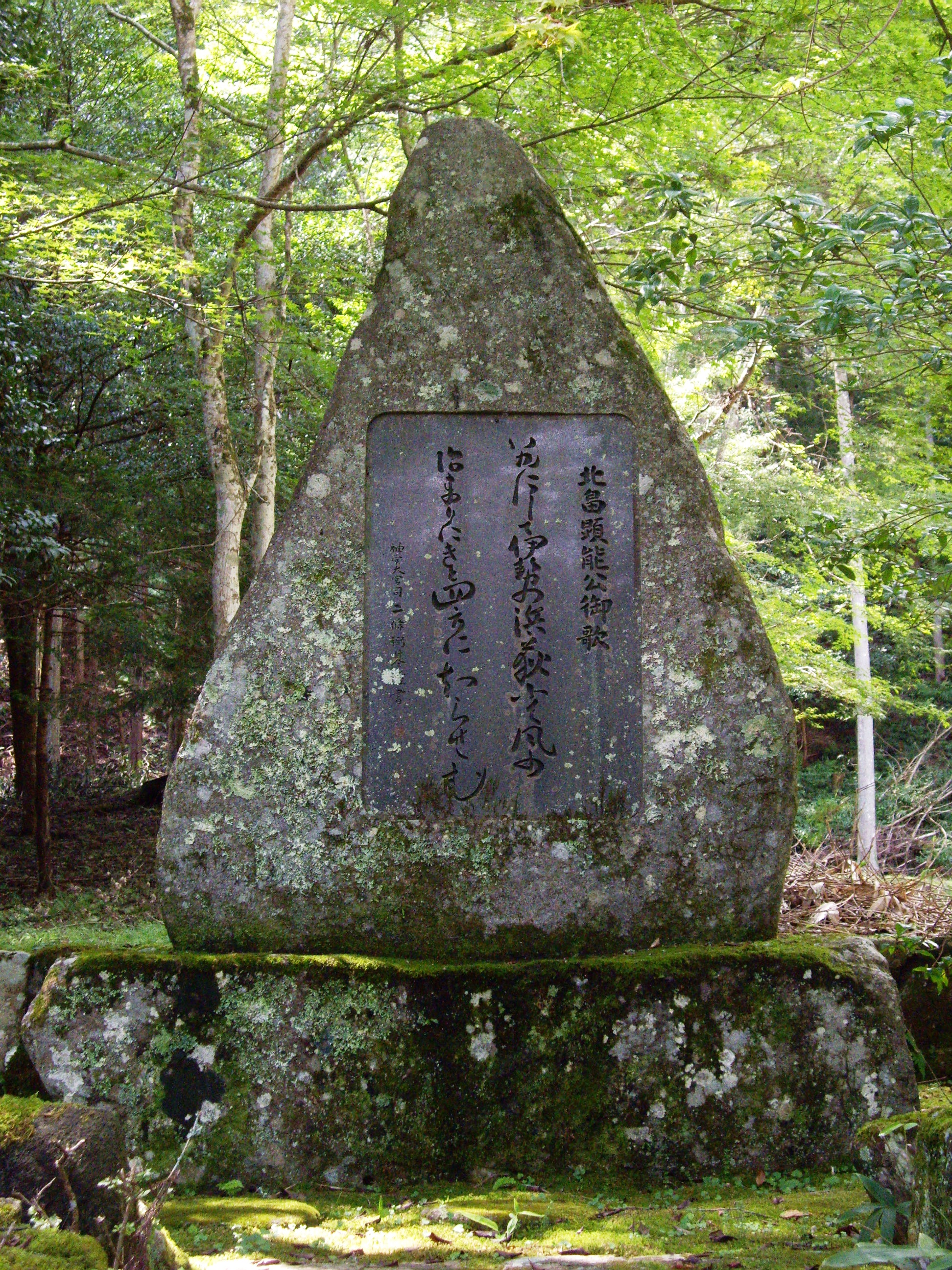 The monument inscribed with Kitabatake Akiyoshi's waka poem, in Tsu, Mie Prefecture, Japan